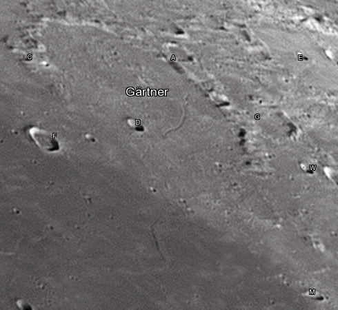 Gartner lunar crater as seen from Earth with satellite craters labeled